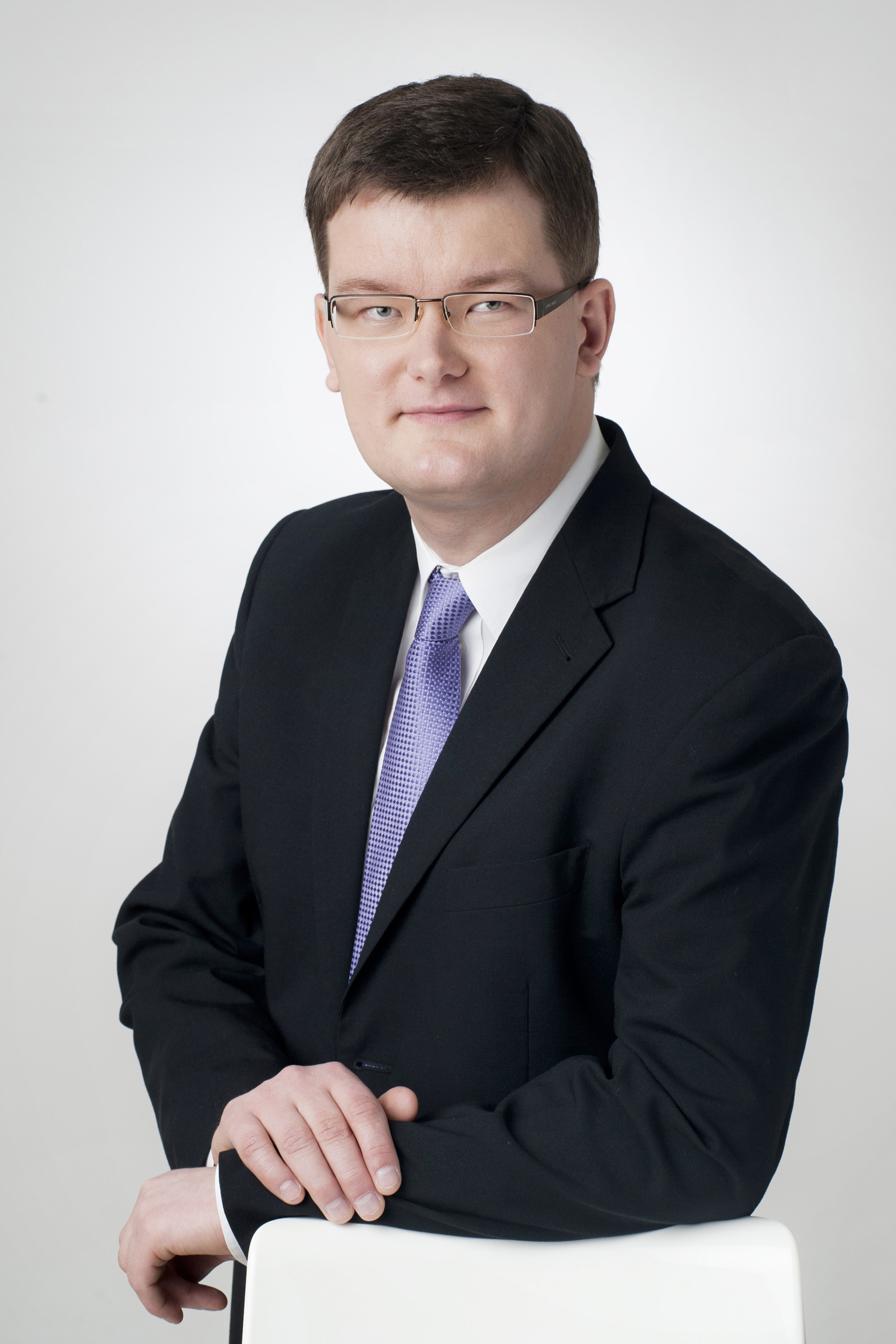 Fotostuudios.